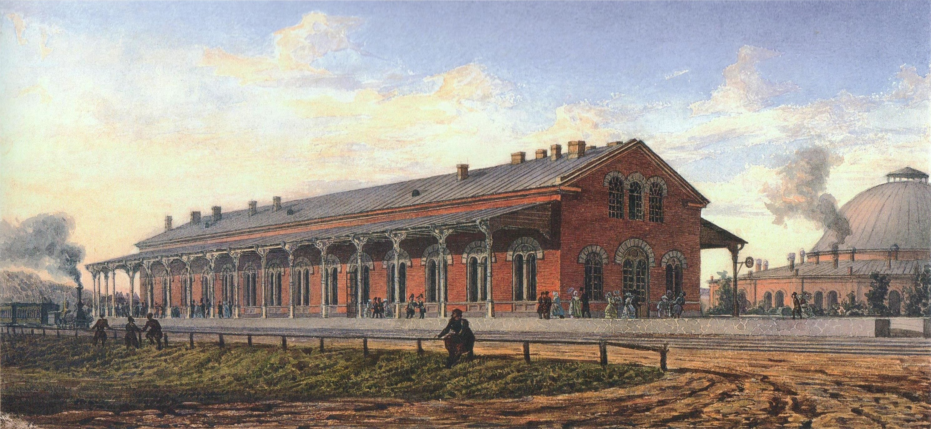 Station II class on Moscow-Saint Petersburg Railway